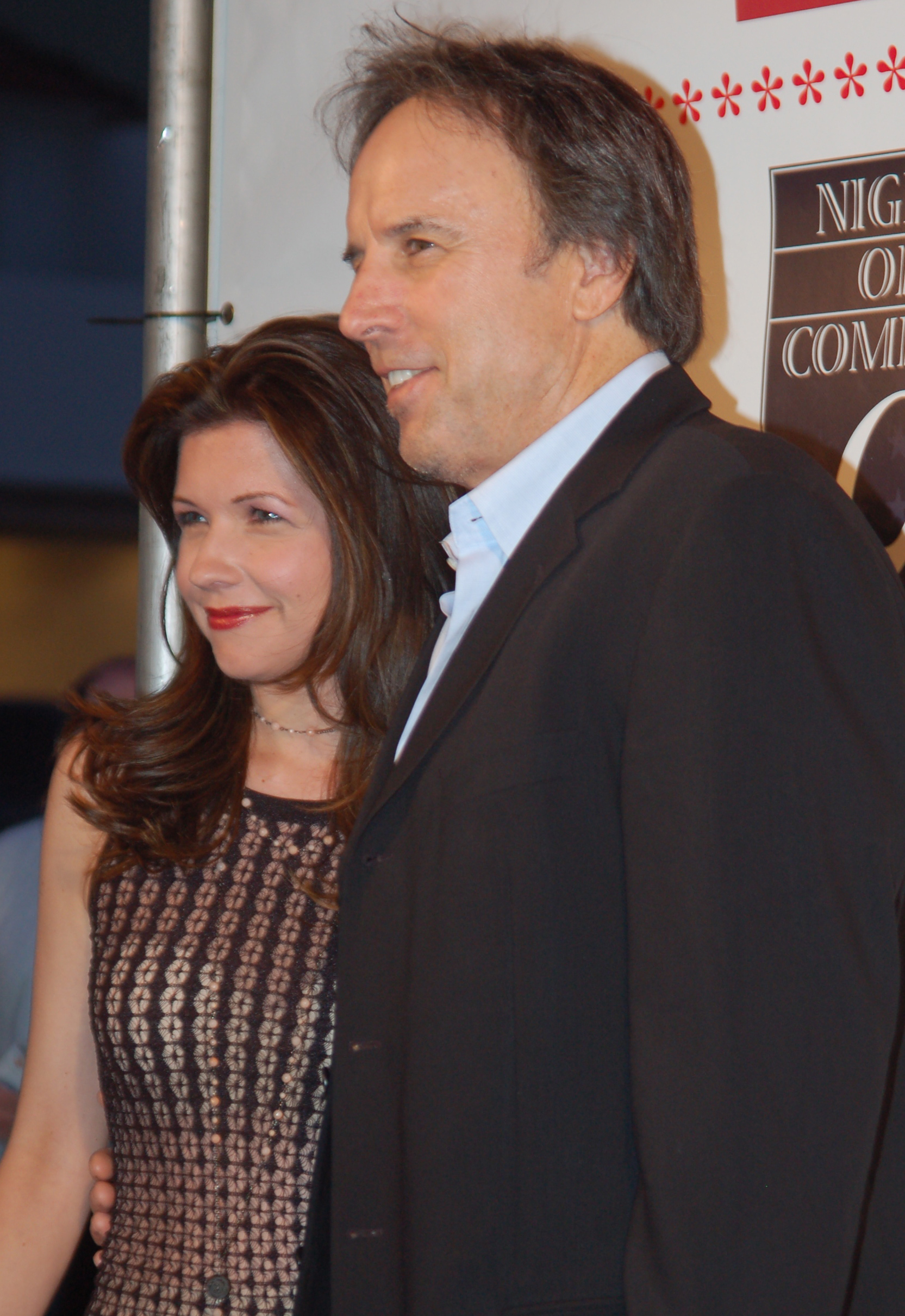 Susan Yeagley and Kevin Nealon at the Night of Comedy 9 benefit to support the Children Affected by AIDS Foundation (CAAF) in Beverly Hills, California.